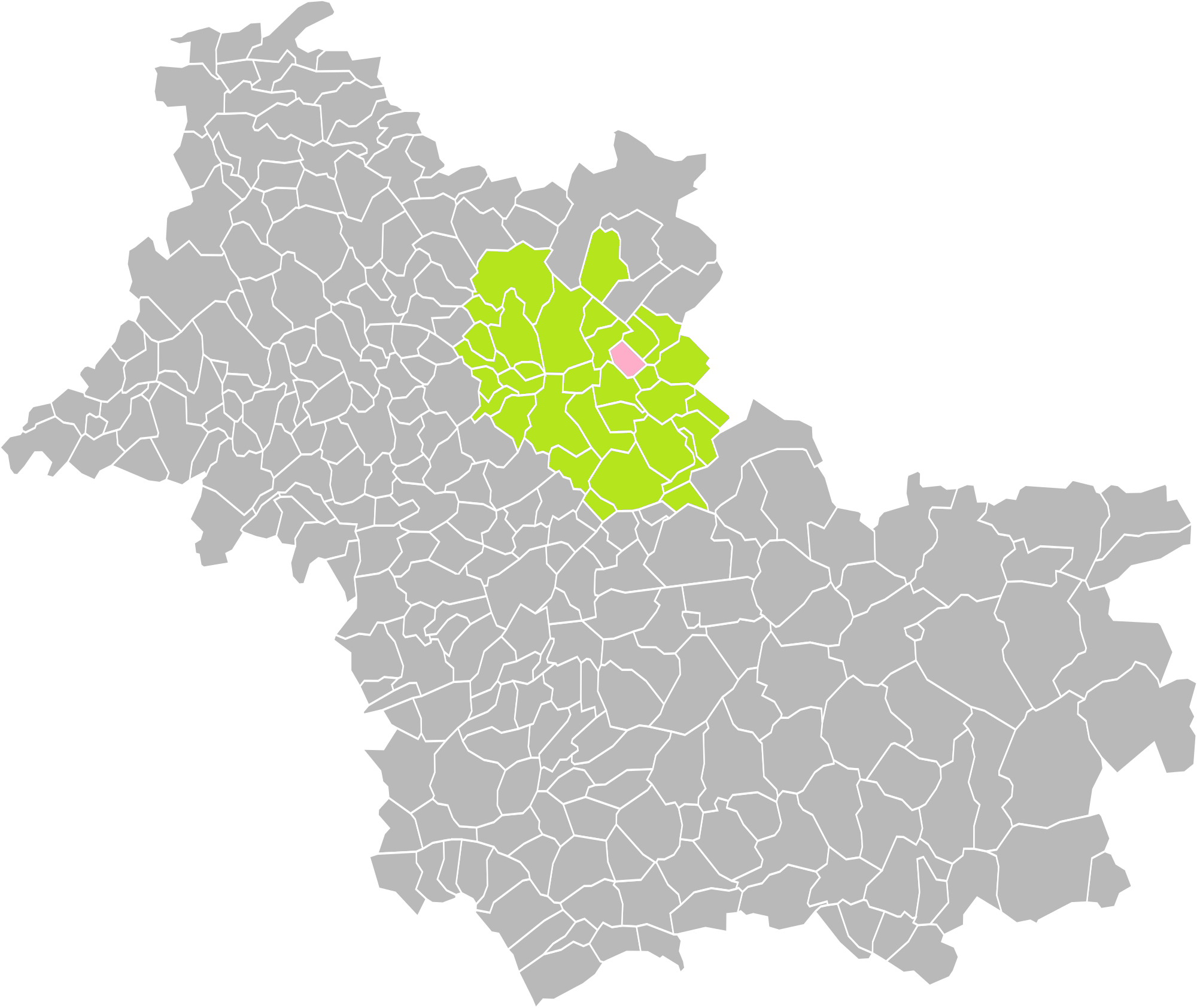 Location of the commune of Roches in the Communauté de communes de la Beauce-Val de Loire (Loir-et-Cher)